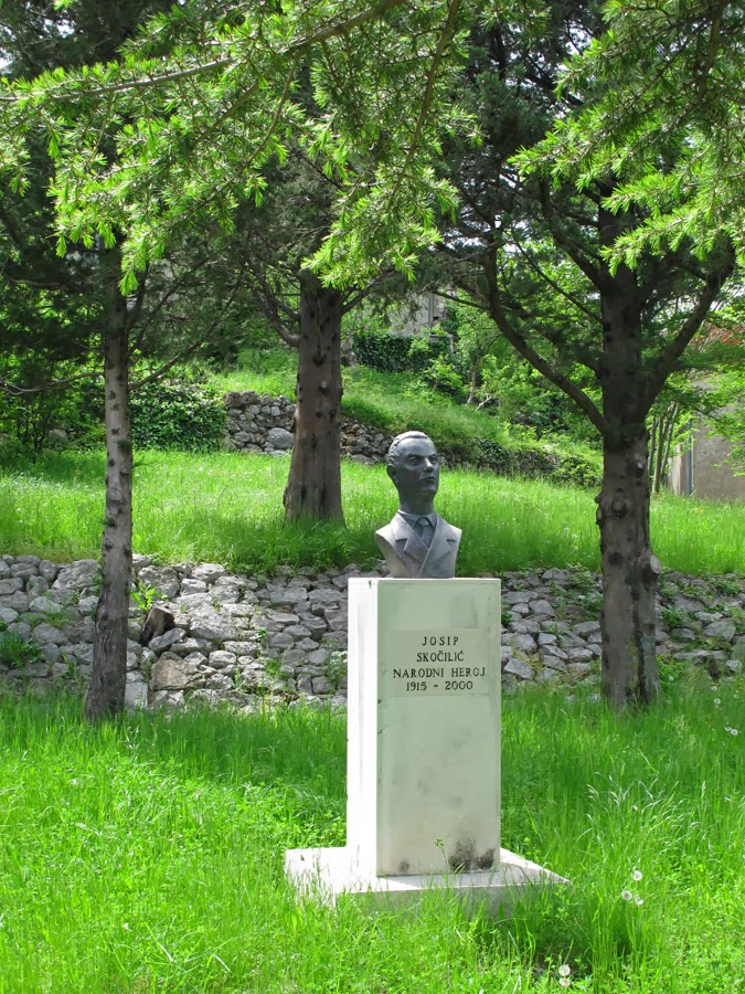 Bust of People's hero of Yugoslavia, Josip Skočilić, Bribir.